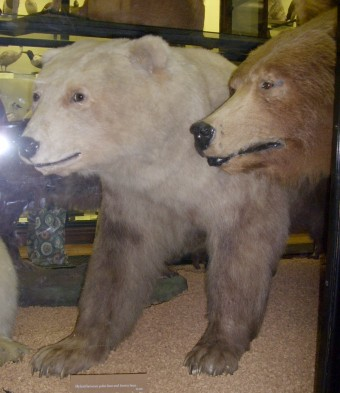 Photographer: Sarah Hartwell (Messybeast). Polar/Brown Bear adult hybrid. Rothschild Museum, Tring, England. Released for Wikipedia use.